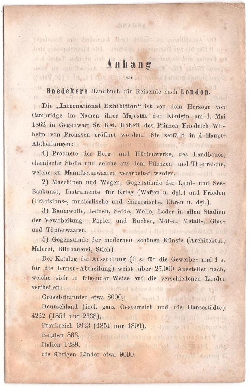 Baedekers London 1862, Anhang